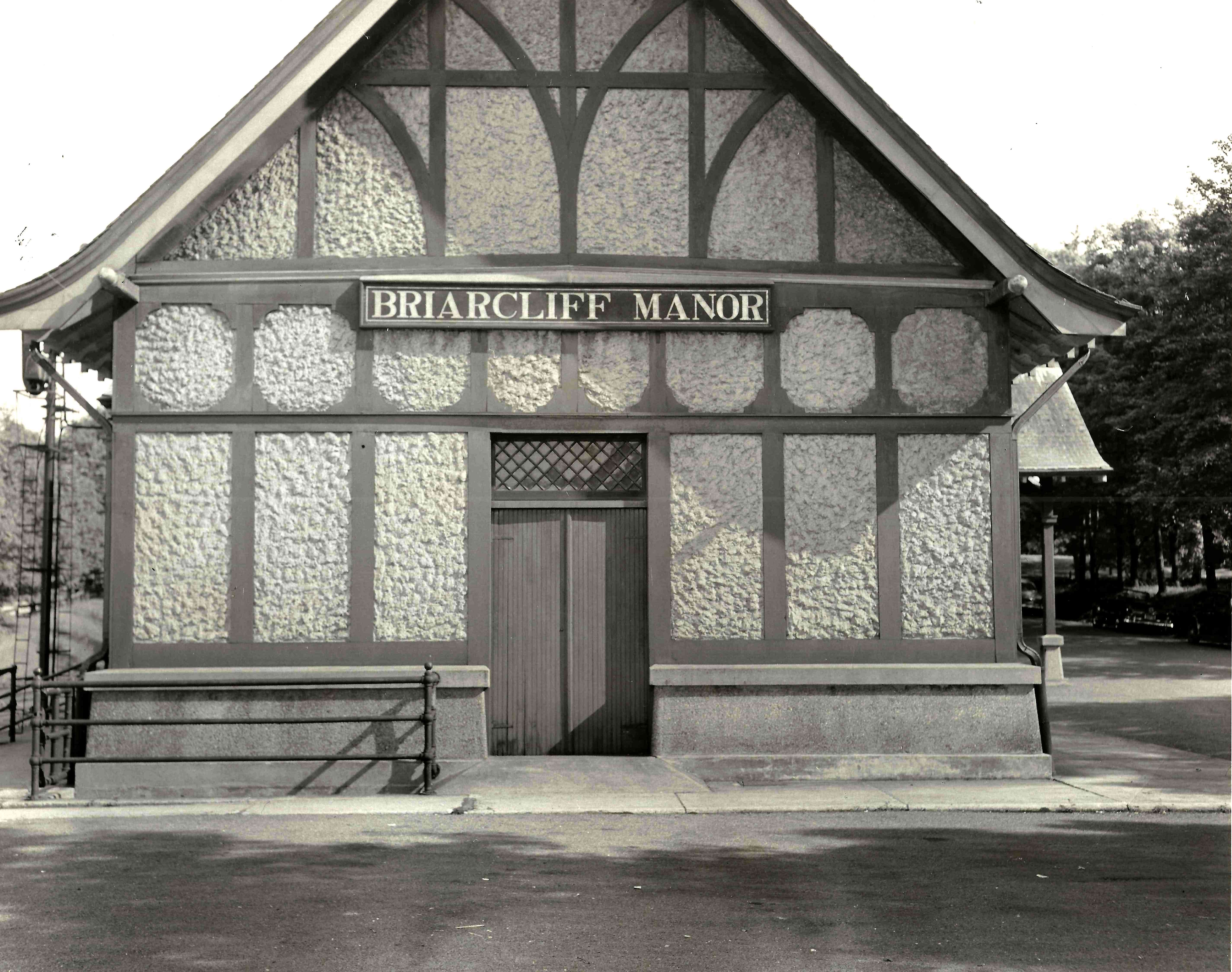 North face of the Briarcliff Manor railroad station in Briarcliff Manor, New York; June 8, 1952.